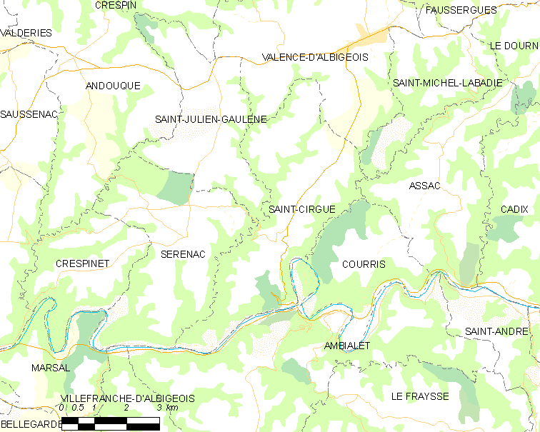 Map of French municipality Saint-Cirgue